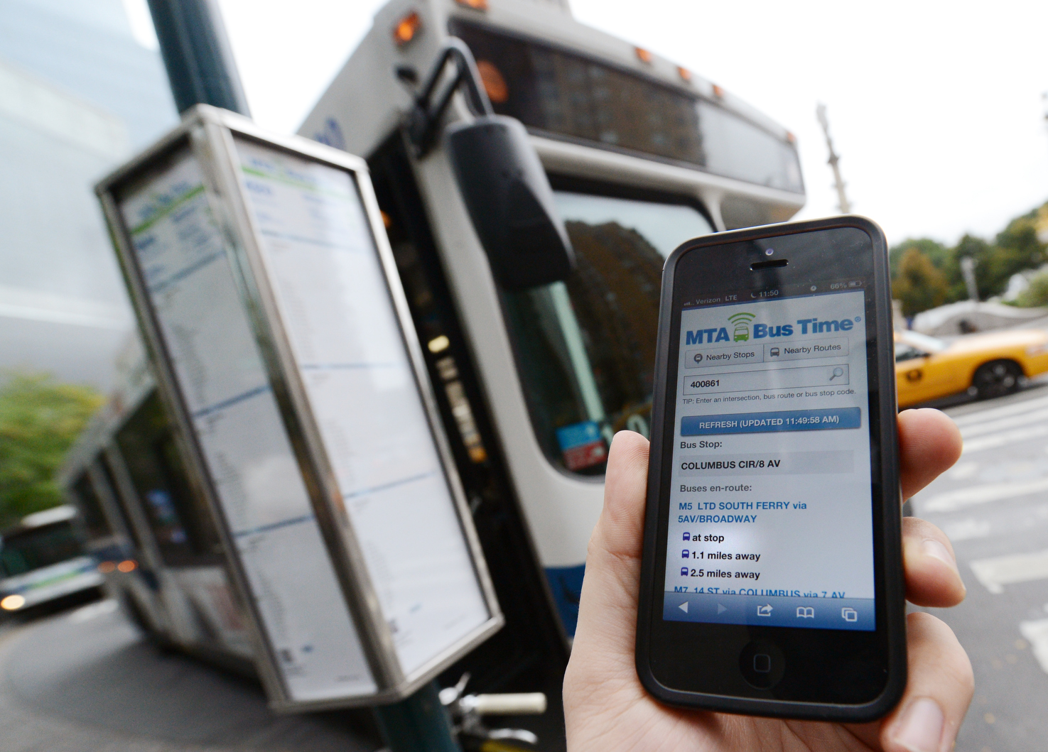 MTA Bus Time was launched for Manhattan buses today, October 7, 2013, with an announcement in Columbus Circle. Photo: Marc A. Hermann / MTA New York City Transit